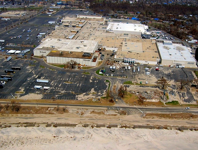 Edgewater Mall, Biloxi, Mississippi, USA, two weeks after Hurricane Katrina devastated the Mississippi Gulf Coast.